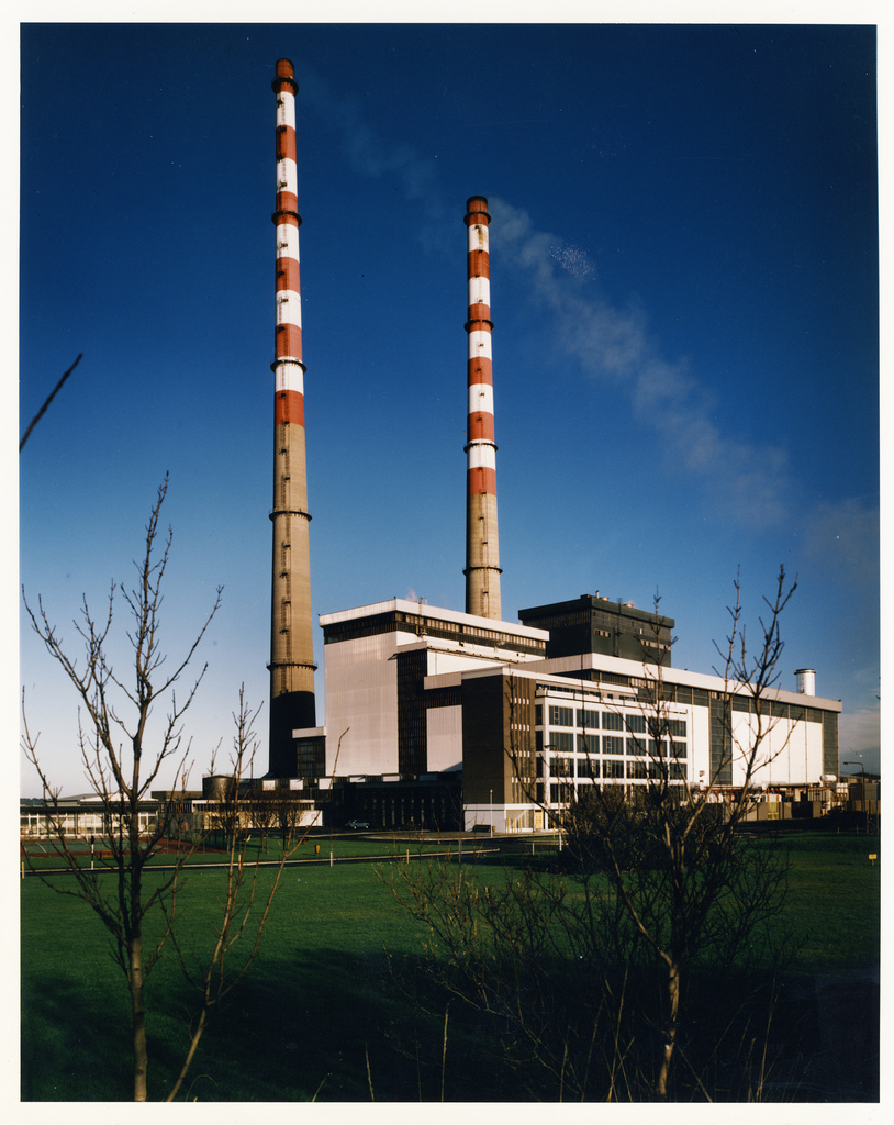 Pigeon House 1994, 5x4 Sinar camera, 150 mm lens, Kodak 160 neg film.